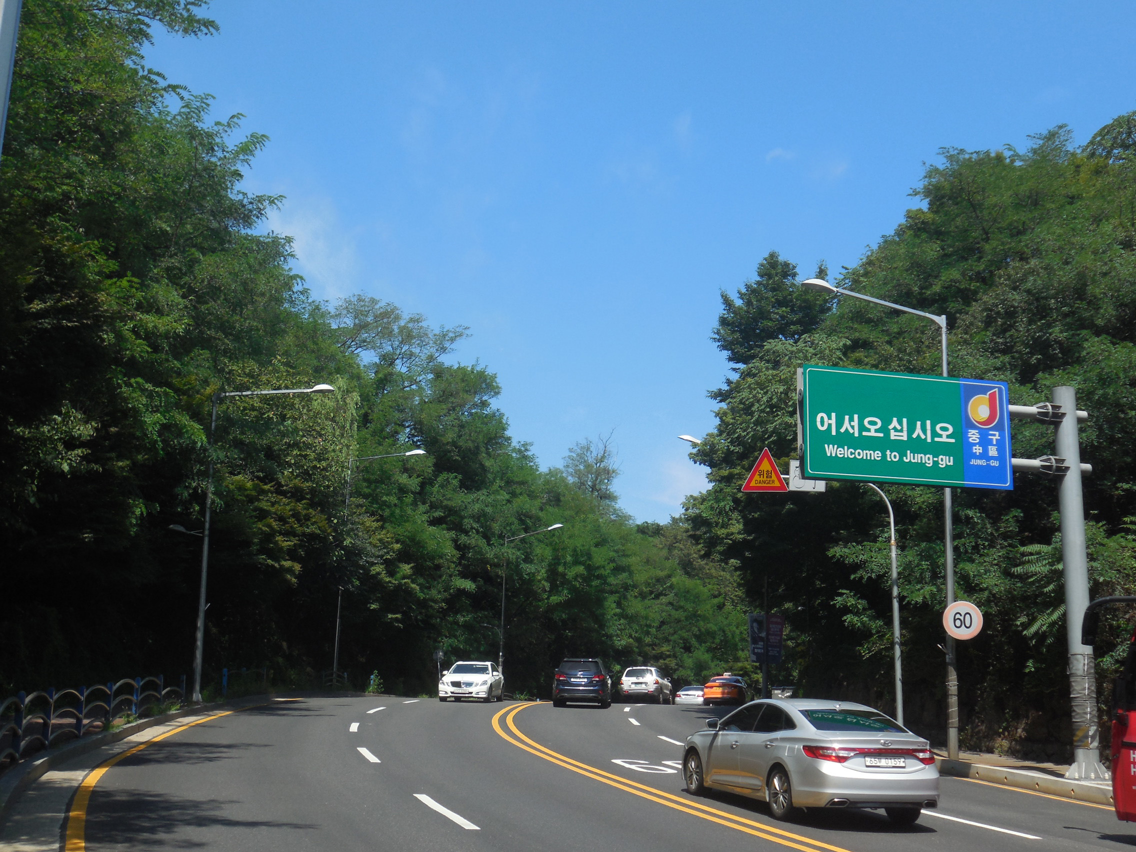 Site of Namsomun, demolished gate of Fortress Wall of Seoul.